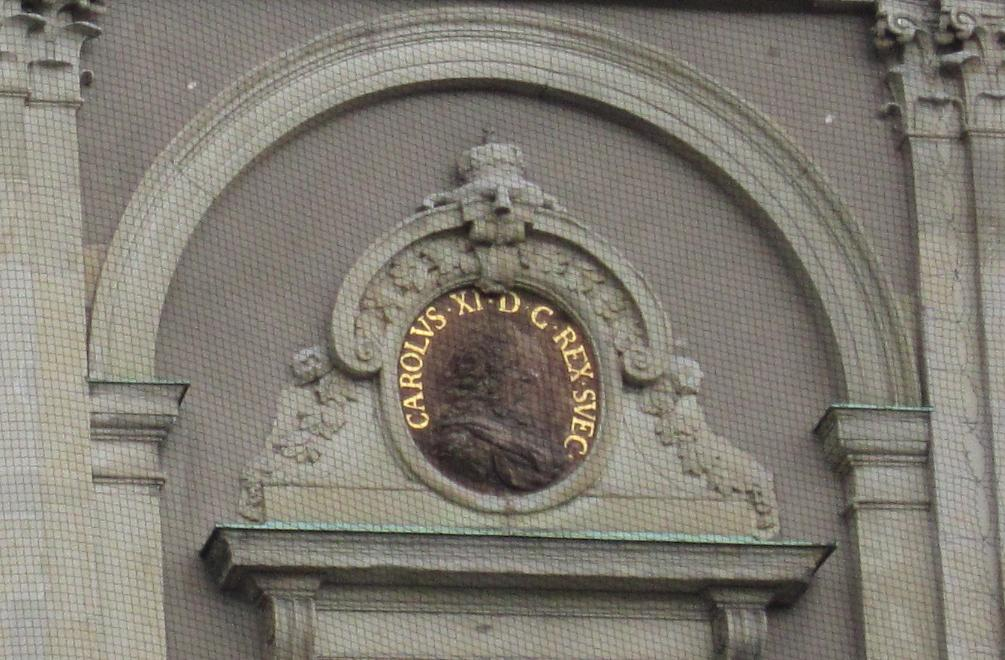 King Charles XI of Sweden, as released by image creator Ristesson HistoryPlace: Stockholm Palace, Sweden